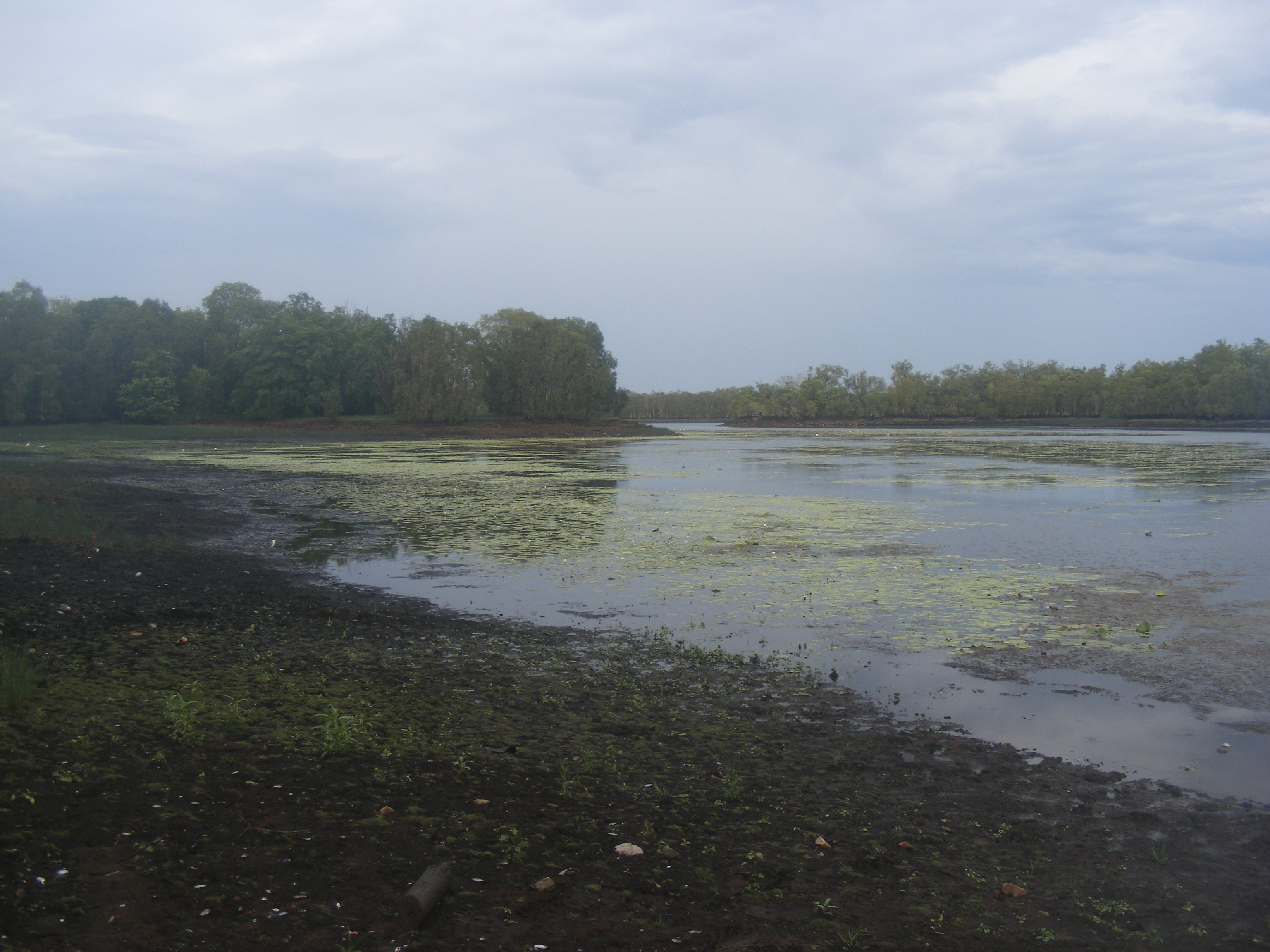 Waterlilies and wildlife at Manton Dam